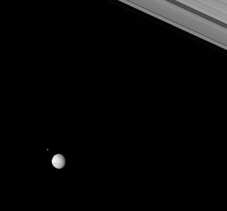 Two moons of Saturn rendezvous in the Saturnian skies above the Cassini spacecraft. Mimas (397 kilometers, or 247 miles across) is seen here just before gliding in front of Helene (32 kilometers, or 20 miles across), which lays 192,000 kilometers (119,000 miles) in the distance beyond the larger moon. The limb of Mimas is flattened in the west, where the rim if the large crater Herschel lies. This view looks toward the lit side of the rings from about 3 degrees below the ringplane. The image was taken in visible light with the Cassini spacecraft narrow-angle camera on Feb. 3, 2007 at a distance of approximately 1.3 million kilometers (800,000 miles) from Mimas and 1.5 million kilometers (1 million miles) from Helene. Image scale is 8 kilometers (5 miles) per pixel on Mimas and 9 kilometers (6 miles) per pixel on Helene. The Cassini-Huygens mission is a cooperative project of NASA, the European Space Agency and the Italian Space Agency. The Jet Propulsion Laboratory, a division of the California Institute of Technology in Pasadena, manages the mission for NASA's Science Mission Directorate, Washington, D.C. The Cassini orbiter and its two onboard cameras were designed, developed and assembled at JPL. The imaging operations center is based at the Space Science Institute in Boulder, Colorado.